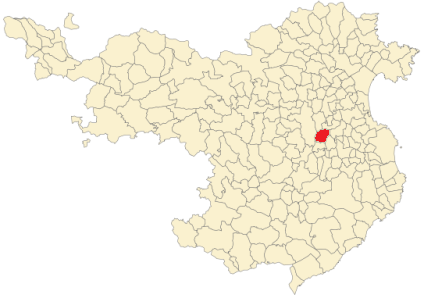 Viladasens